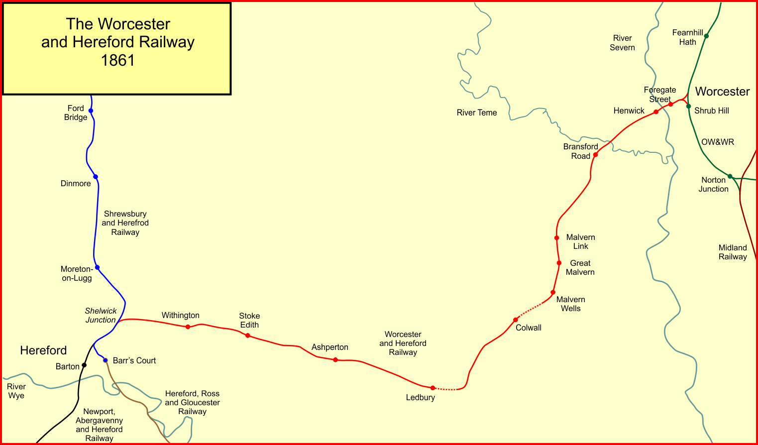 System map of the Worcester and Hereford Railway in England when it opened throughout in 1861